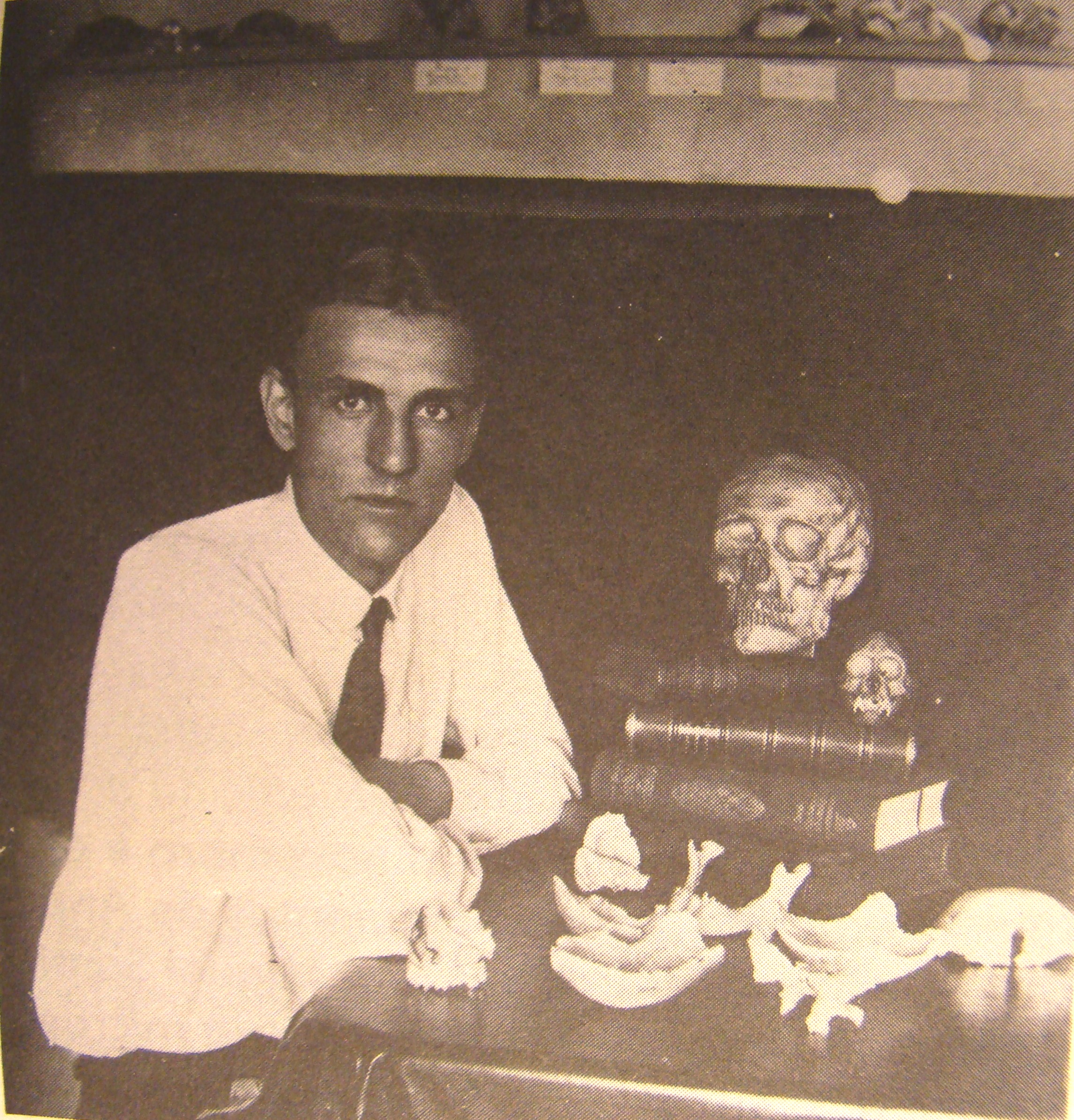 Guido Straube (1890-1937), naturalist.